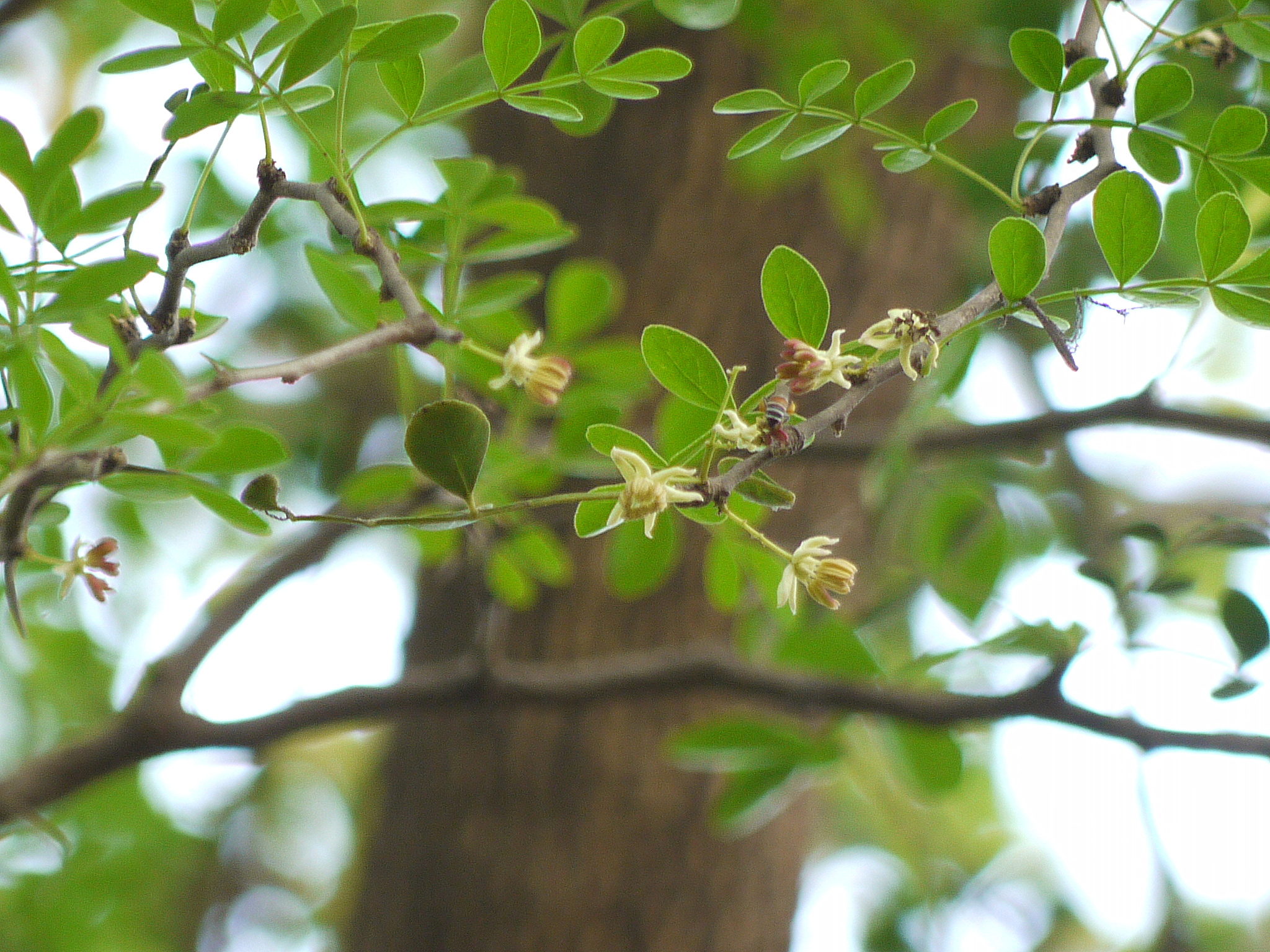 Rutaceae (ruta, or citrus family) » Limonia acidissima lie-MOW-nee-uh -- from Persian limuna or Arabic limoin; unsure of pronunciation ass-id-ISS-ee-muh -- from Latin acidus (very sour) commonly known as: curd fruit, elephant apple, monkey fruit, wood apple • Arabic: tuffâhh el fîl • Bengali: কপিত্থ kapittha, কয়েতবেল kayetabela • Gujarati: કોઠા kotha, કોઠી kothi • Hindi: दधिफल dadhiphal, दन्तसठ dantasath, कैथ or कैथा kaith, कपित्थ kapitth, कठबेल katabel, कावित kavit, मन्मथ manamath, पुष्पफल pushpaphal • Kannada: ಬೇಲದ ಹಣ್ಣಿನ ಮರ baelada hannina mara, ಬೇಲದ ಮರ baelada mara, ದಧಿಫಲ dadhiphala, ದಮ್ತಸಟ damtasata, ಕಪಿಠಾ kapithha, ಮನಮಥ ಮರ manmatha mara, ನಾಯಿಬೆಲ nayibel • Malayalam: നായ് വേലം naay veelam, വിളങ്കായ് vilankaay • Marathi: कपित्थ kapith, कवंठ kavant, कवंठी kavanti, कवठ kavat • Oriya: koyito • Prakrit: कइत्थं kaittham, कइत्थो kaittho • Sanskrit: दधिफल dadhiphala, दधित्थ dadhittha, दन्तशठ danthashatha, कपित्थं kapithama, कपित्य kapitya, कपित्यं kapityama, पुष्पफल pushpaphala • Tamil: கபித்தம் kapittam, கவித்தம் kavittam, தந்தசடம் tantacatam, விளா vila, விளா மரம் vilamaram, விளாம்பழம் vilampazam • Telugu: కపిత్థము kapitthhamu, వెలగ velaga, వెలగపండు velagapandu Native to: India, Pakistan, Sri Lanka, Myanmar, Thailand References: Flowers of India • ENVIS - FRLHT • Wikipedia • Purdue University • World Agroforestry Centre • M.M.P.N.D. • Digital Dictionaries of South Asia